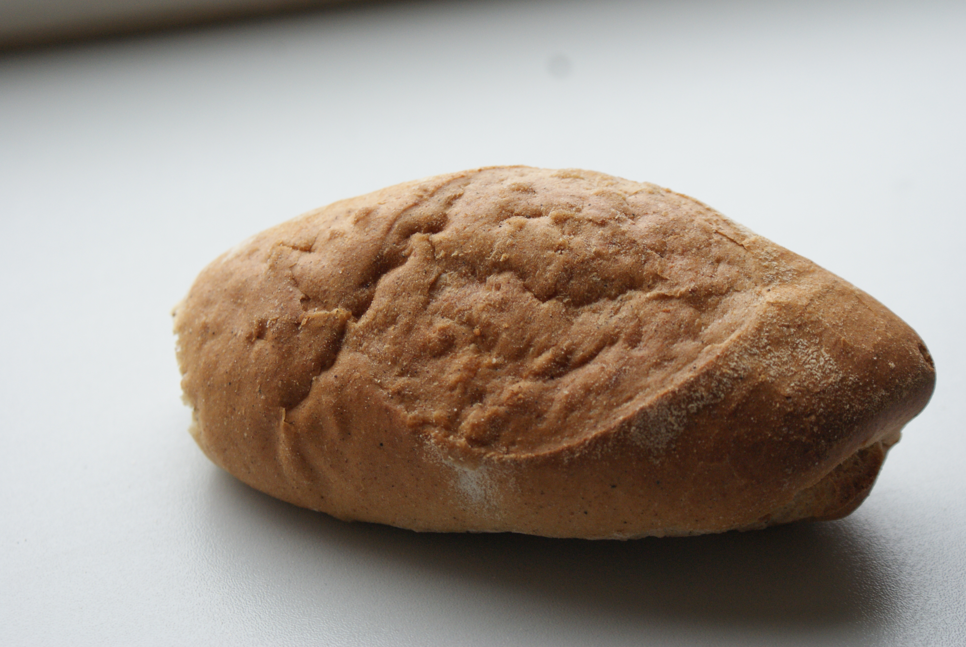 Rye roll